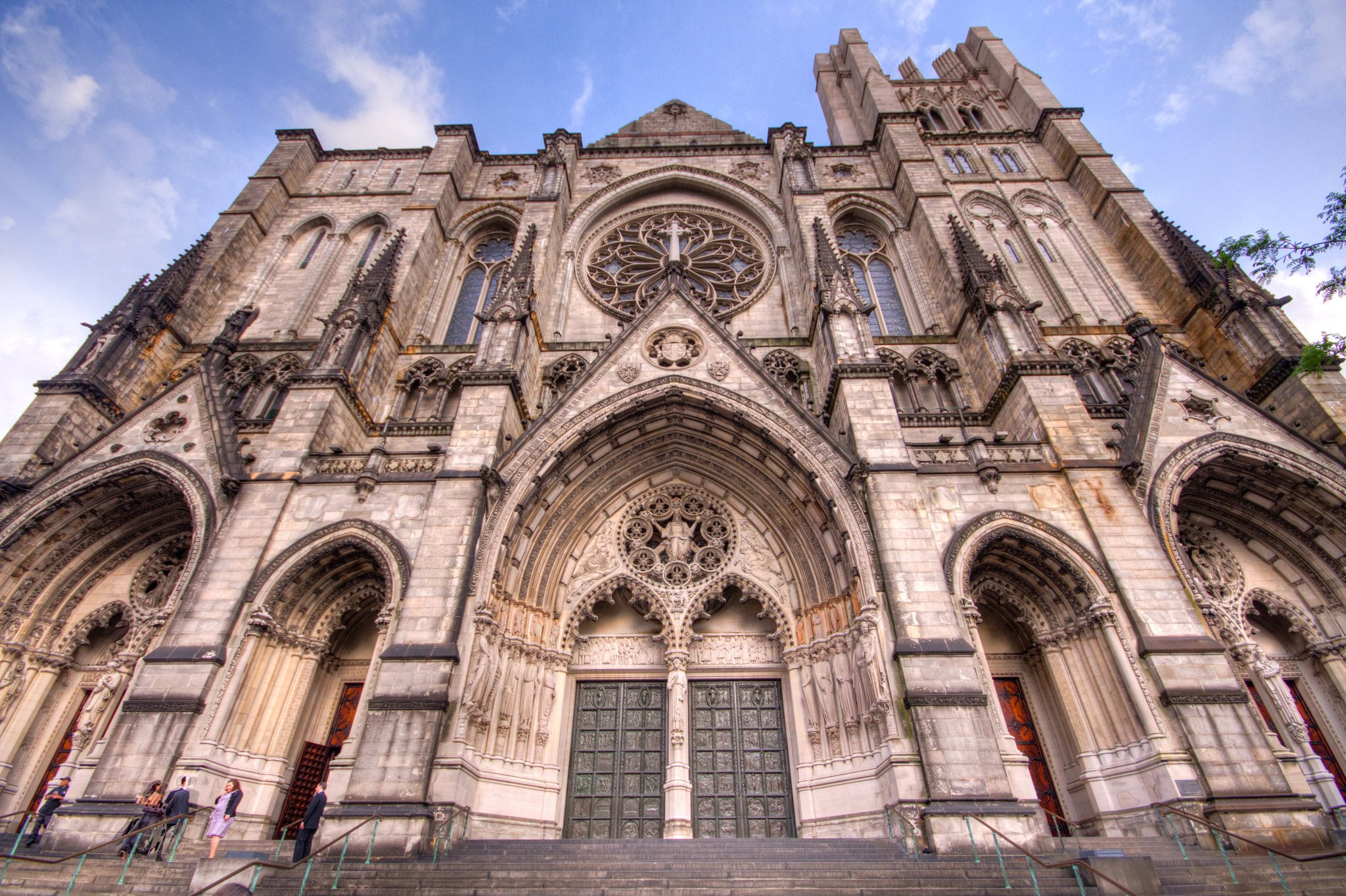 Located at 112th St, Amsterdam Avenue, New York, NY.